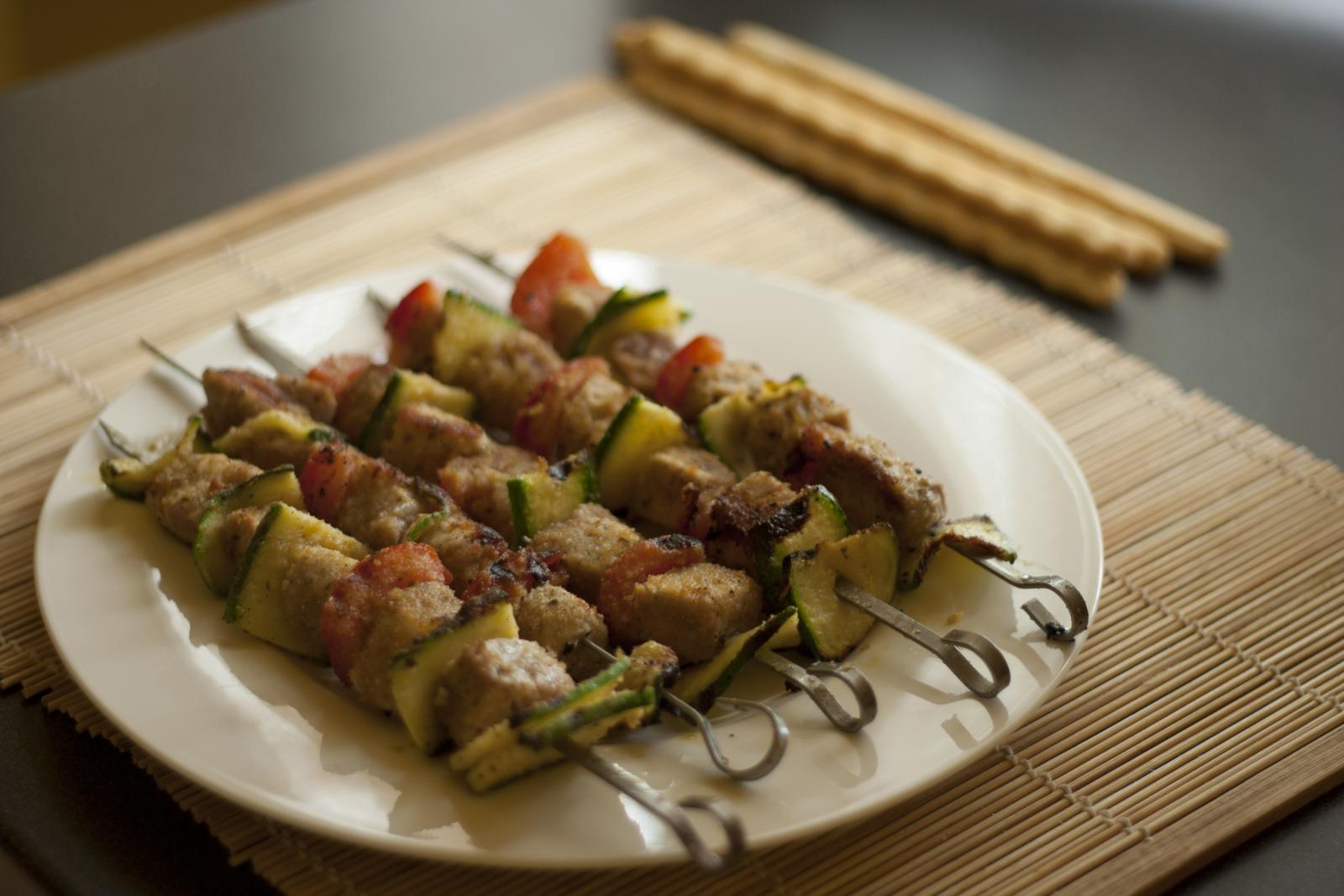 Brochette with tuna and vegetables